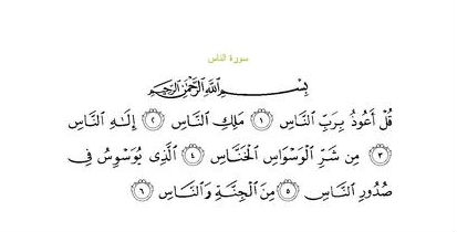 Sura 114